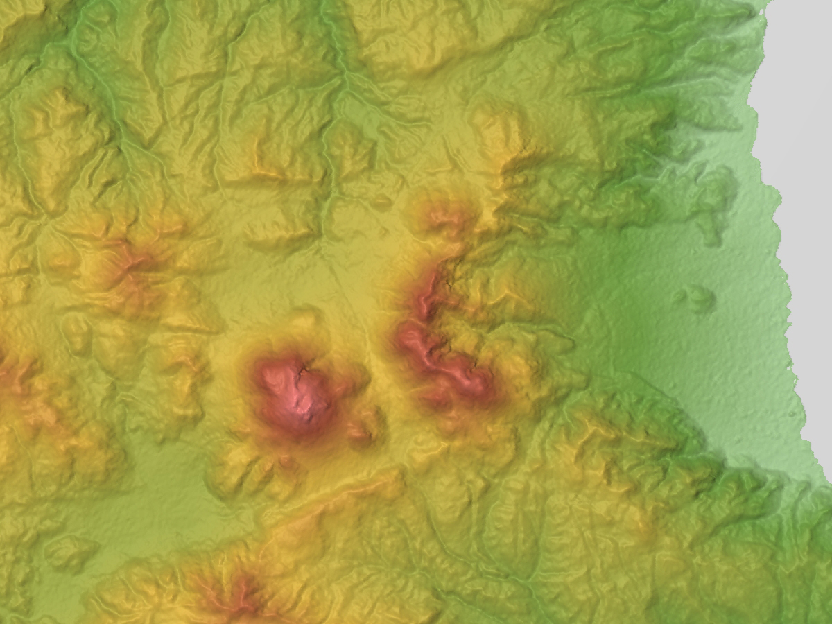 Yufu Volcano (Left) & Tsurumi Volcano (Right) in Oita Prefecture, Kyushu, Japan.